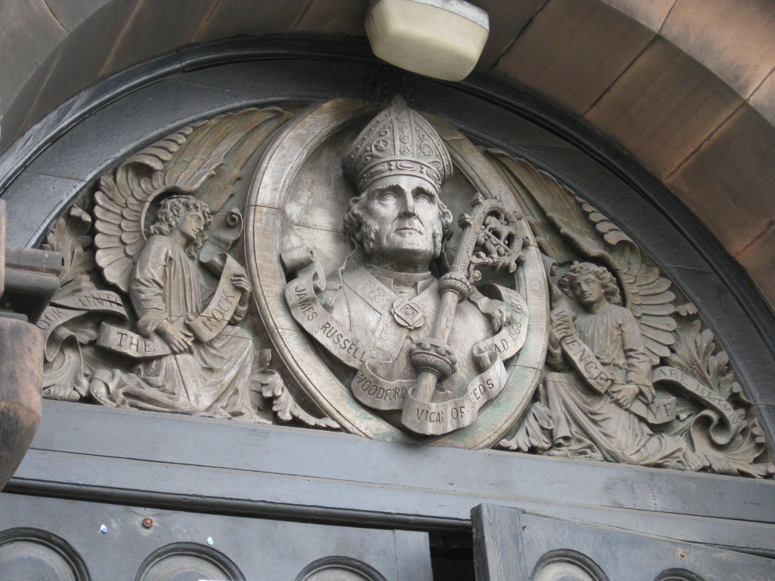 Above the main door to St Aidan's Church, Leeds, England. James Russell Woodford (1820–85), Vicar of Leeds 1868–73, flanked by angels.